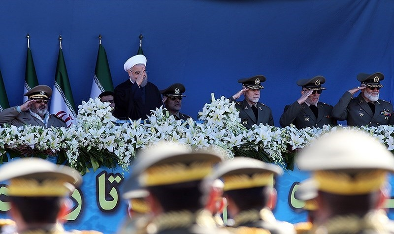 Iranian National Day of Armed Forces